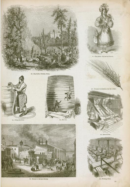 From Charles Knight's Pictorial Gallery of the Arts, England, 1858. An illustration of various means of brewing, and distillation industries.